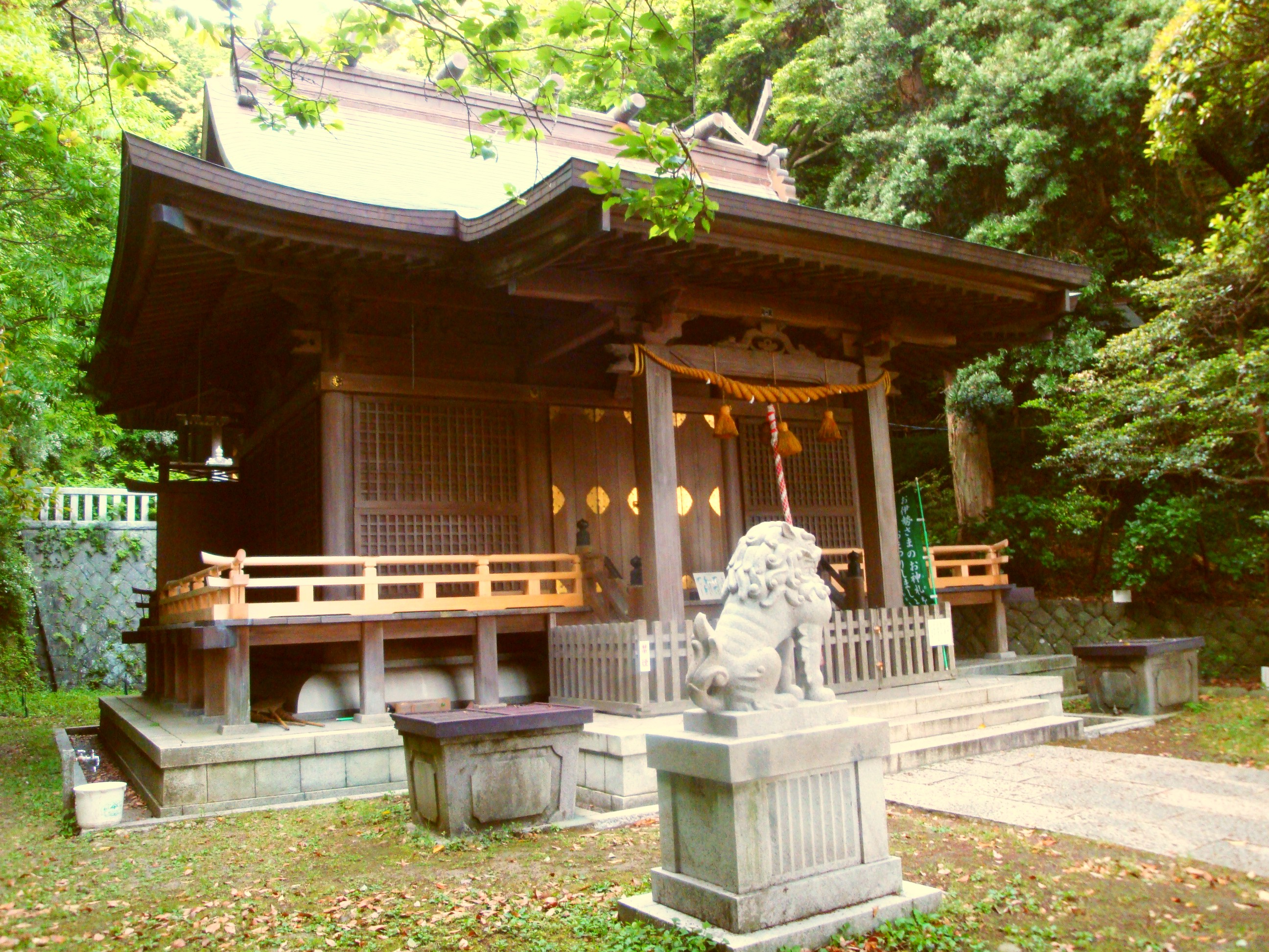 Amanawa Shinmei Jinja Shrine -- the oldest shrine in Kamakura, founded in 710 by Priest Gyoki (668-749) and Tokitada Someya. Main object of worship is Sun Goddess Amaterasu. The haiden of the shrine.